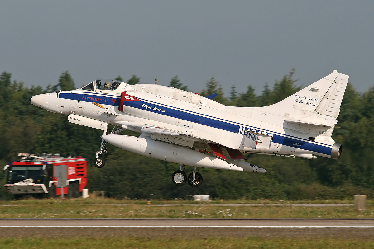 A BAE Systems Douglas A-4N Skyhawk landing at Wittmundhafen air base, Germany. BAE Systems provides four former Israeli A-4Ns as target tugs.